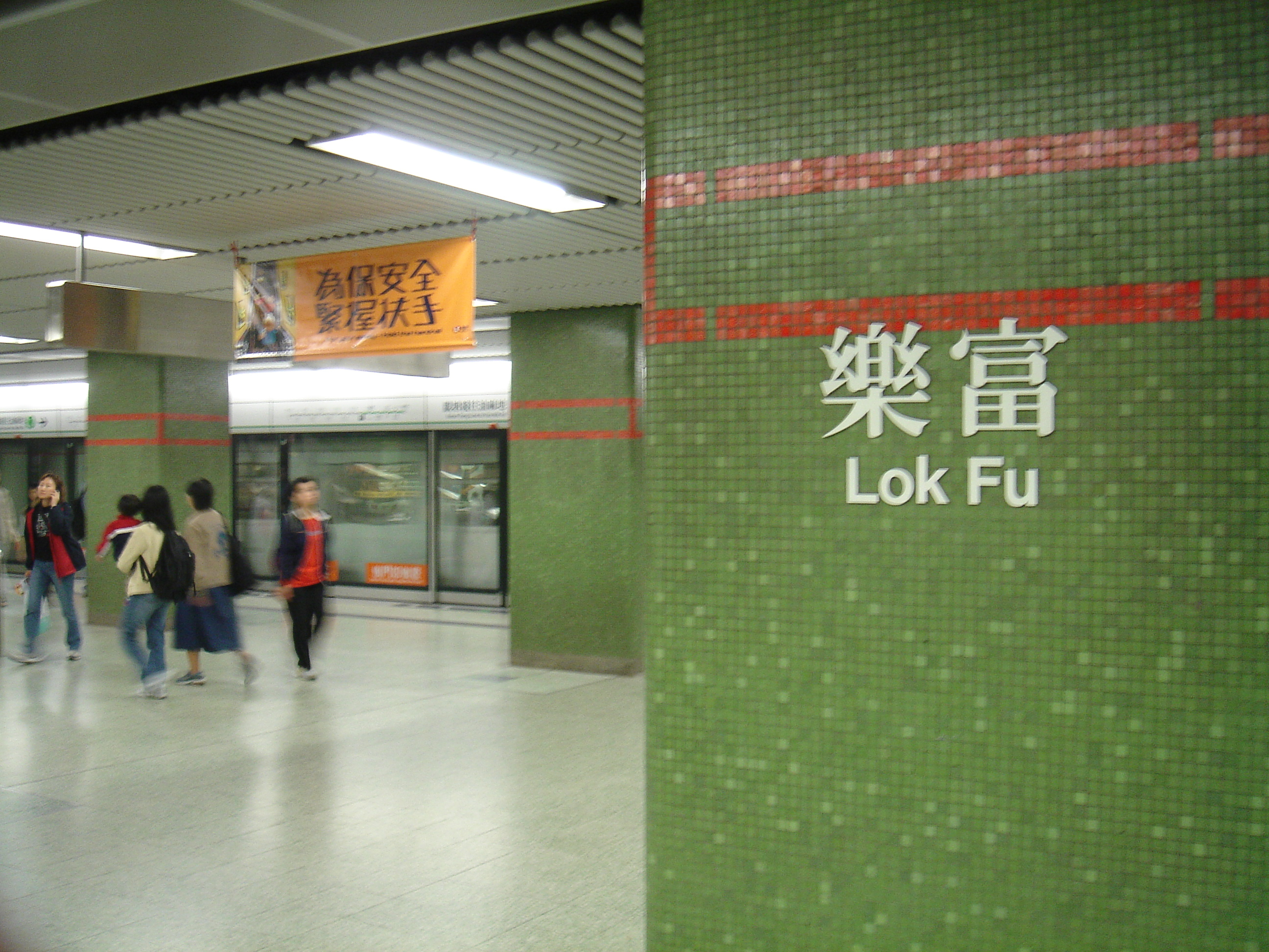 Lok Fu (樂富) Station platform level, Kung Tong Line, MTR Hong Kong.